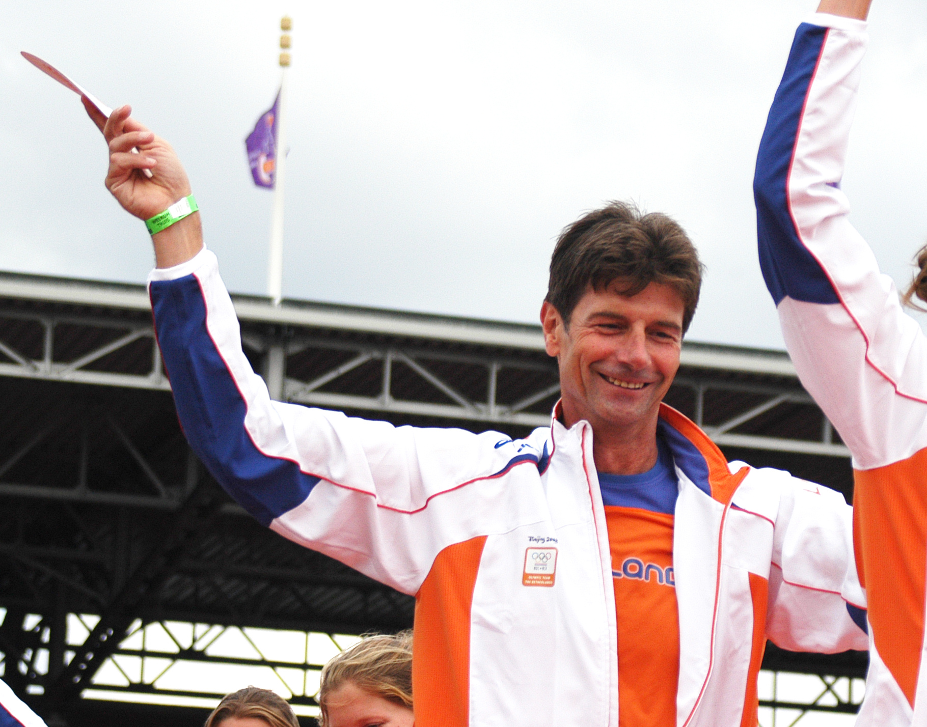 René Mijnders at the Olympic welcome in the Olympic Stadium in Amsterdam, the Netherlands